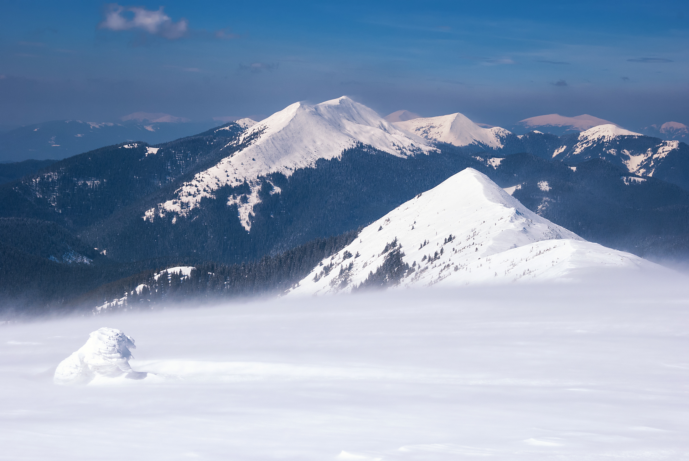 Gorgany nature region, an administrative Reserve located in the village council Bystrytska and Zelenskaya which belongs to Nadvirna district. Note the snow mass on the left looks like a lion meditating (Медитація лева) upon the mountains.